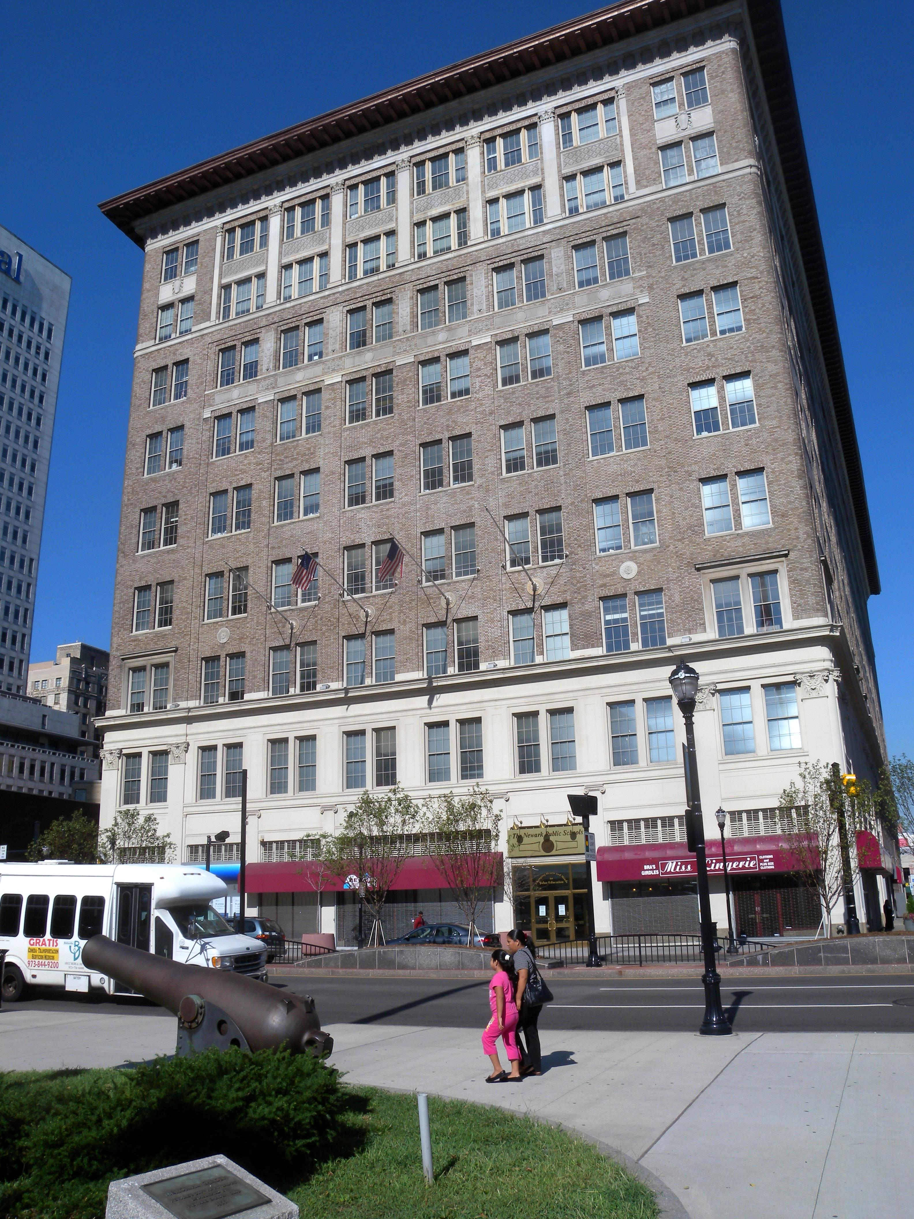 Looking west from Military Park at Newark Public Schools headquarters on a sunny morning. - 2 Cedar Street, Newark, NJ 07102